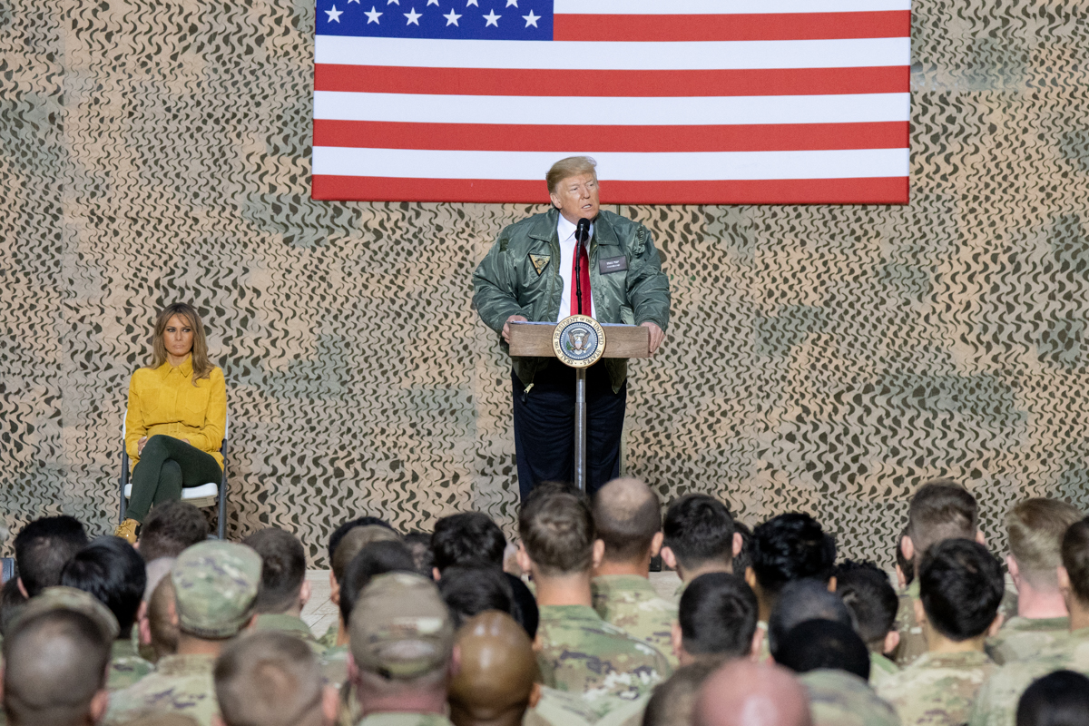 President Donald J. Trump, joined by First Lady Melania Trump, addresses his remarks to U.S. troops Wednesday, December 26, 2018, at the Al-Asad Airbase in Iraq. (Official White House Photo by Shealah Craighead)